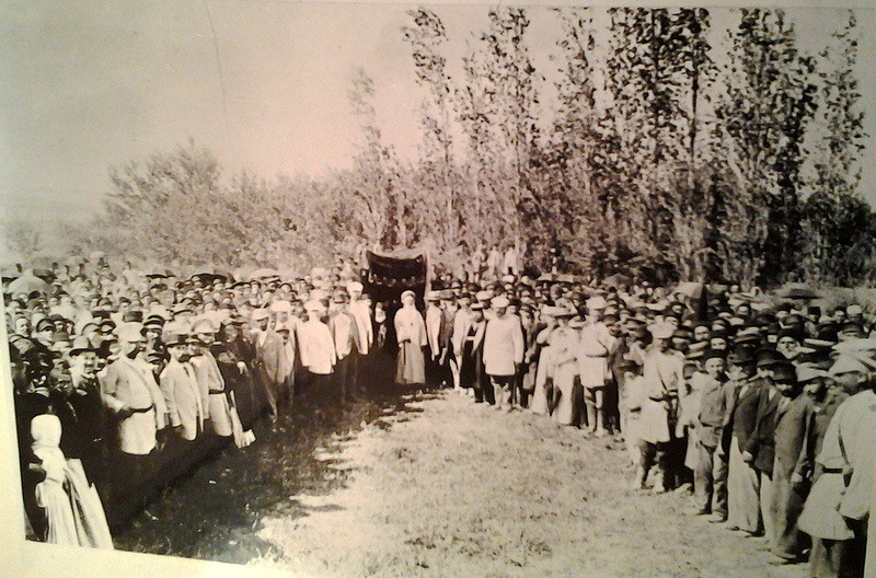 Проводы